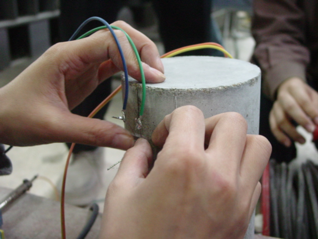 a picture for architectural engineering